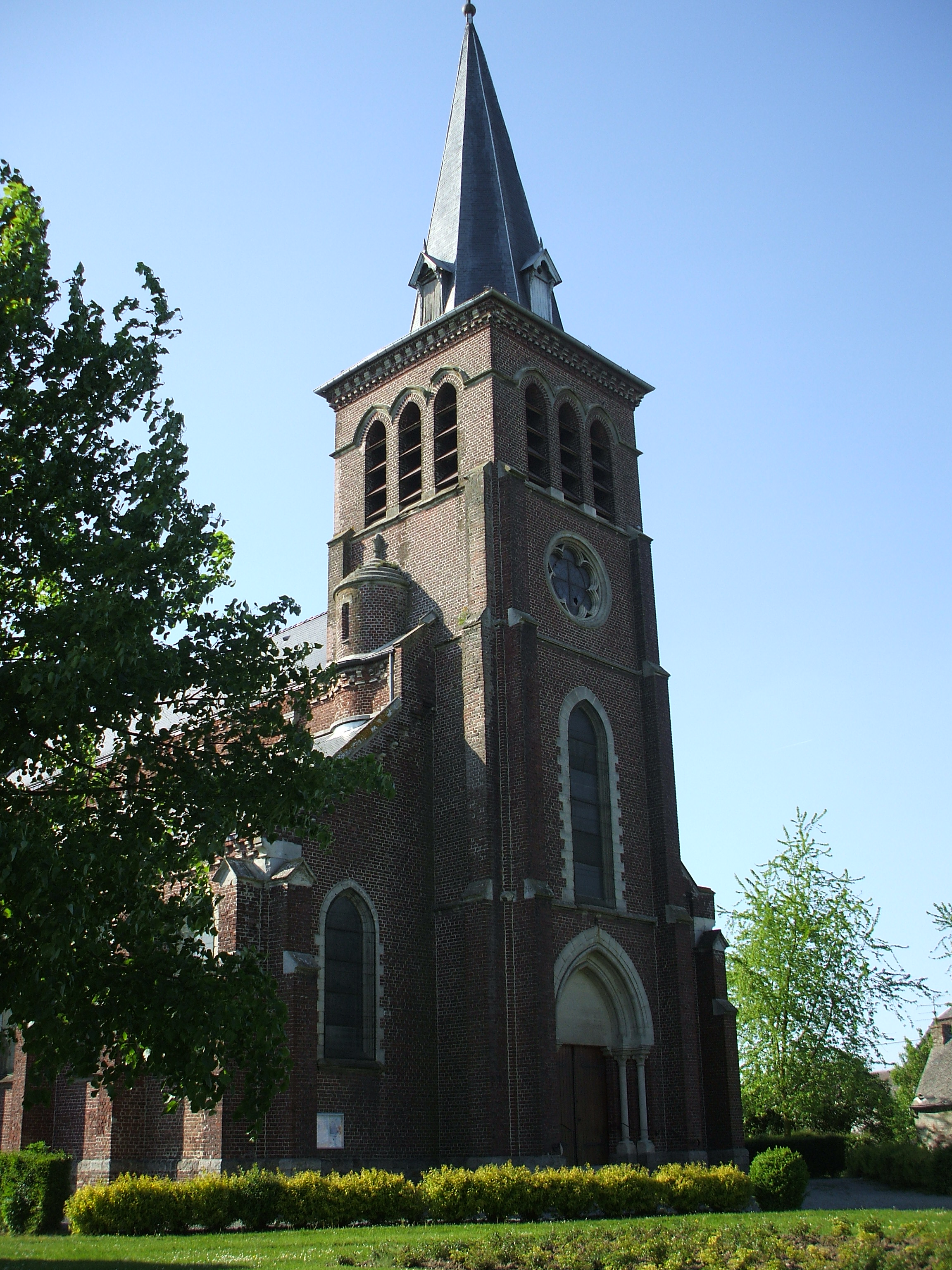 église de taisnieres sur hon XVIe nord france This edifice is indexed in the base Mérimée, a database of the French architectural patrimony maintained by the French Ministry of Culture, under the reference IA59000685.